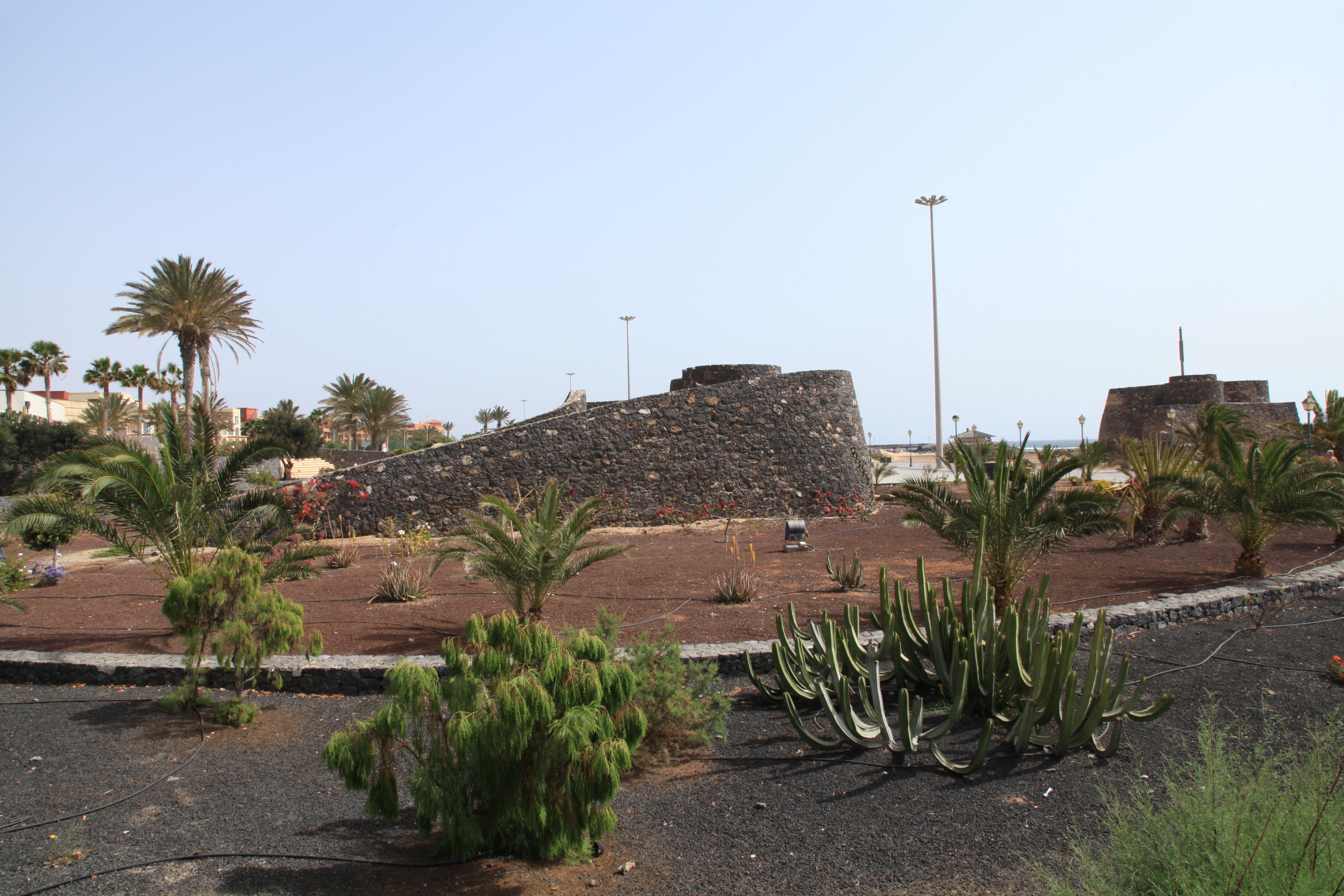 "Hornos de cal de la Guirra", four different historical lime kilns side by side at Lugar Diseminado la Guirra in Caleta de Fuste, Antigua, Fuerteventura, Canary Islands